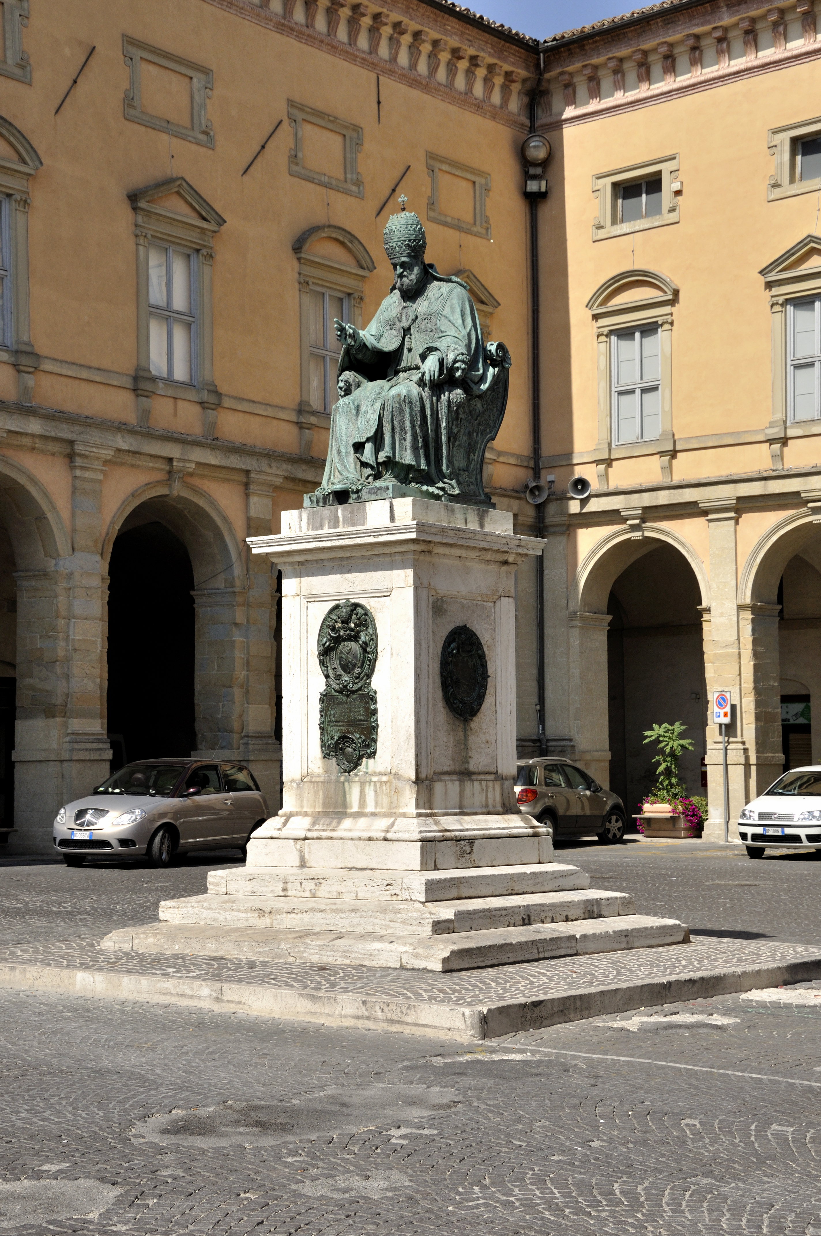 Pope Sixtus V statue in Cavour Square. Camerino, Italy.